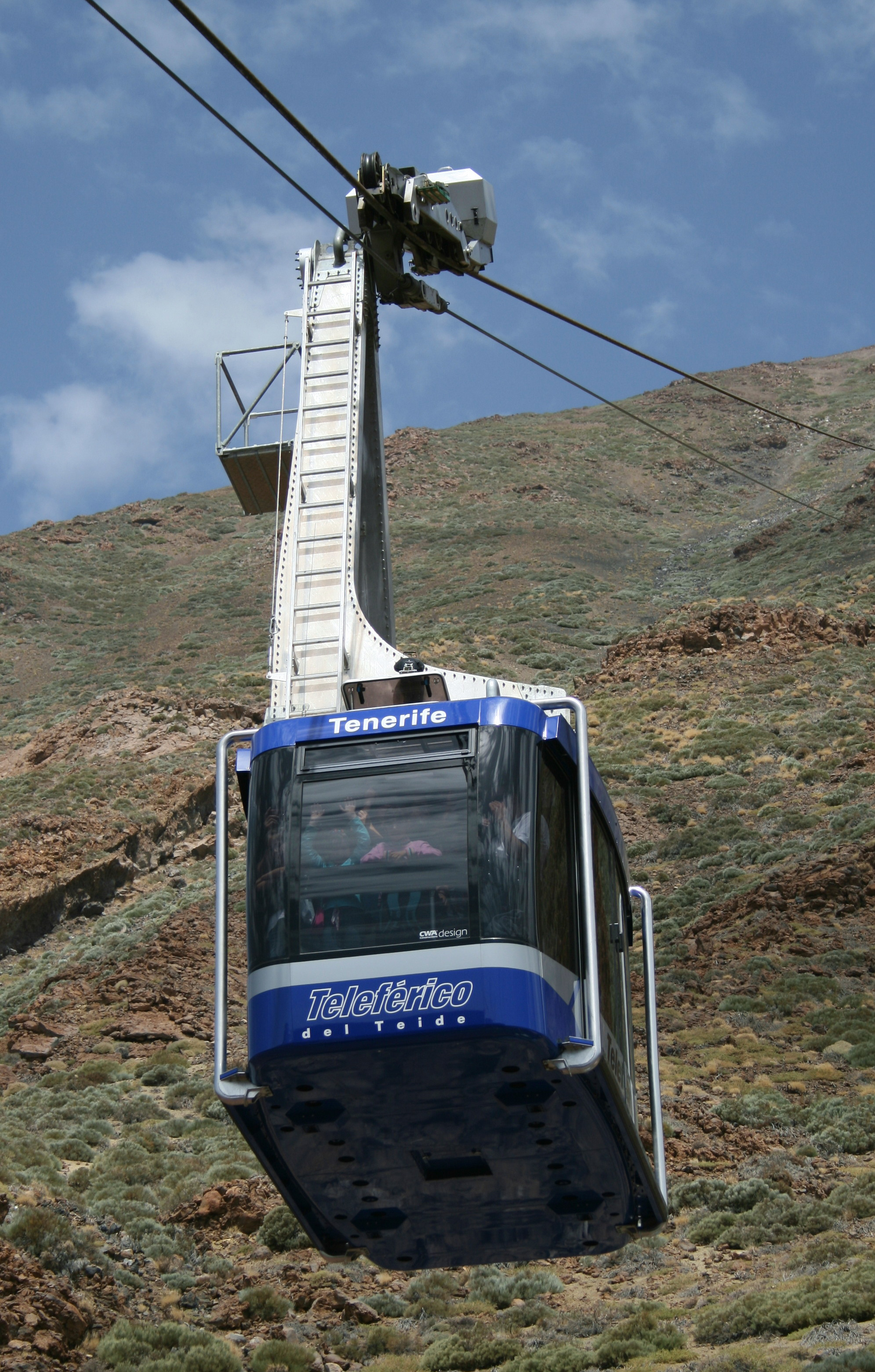 The Cabel Car at Teide